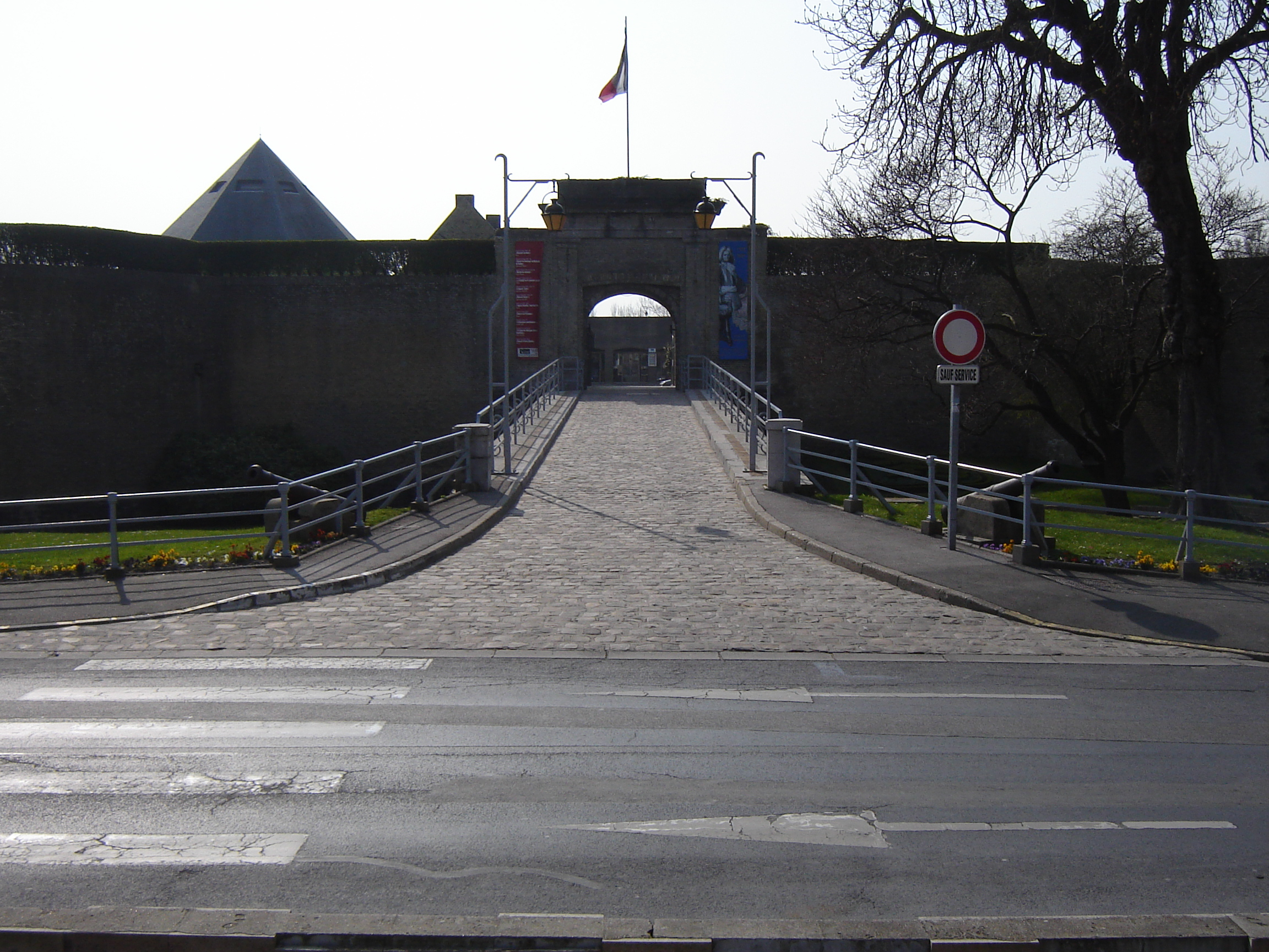 L'Arsenal, the old castle of Gravelines. Gravelines, Nord, Nord-Pas-de-Calais, France